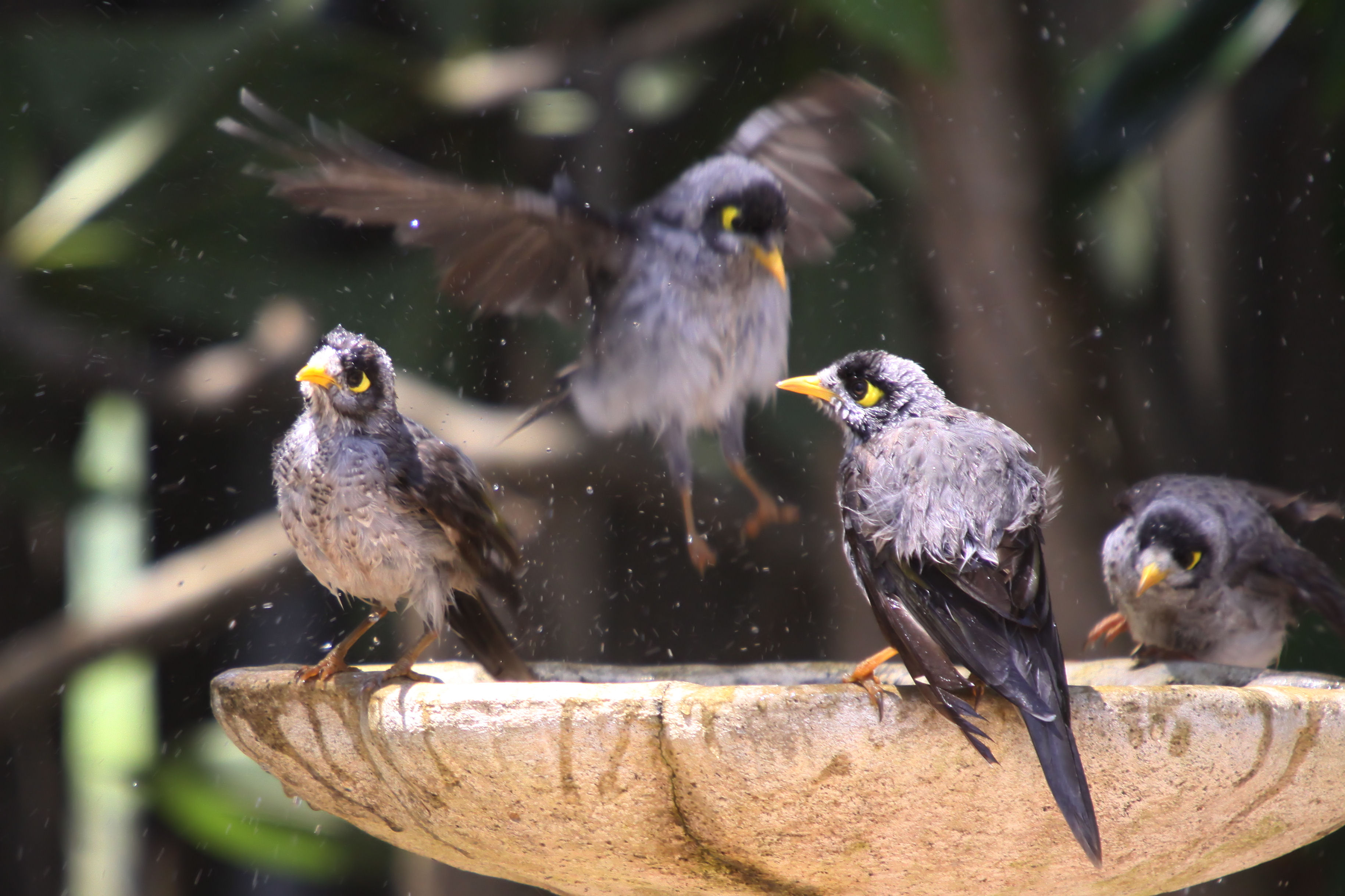 Noisy Miners communally bathing